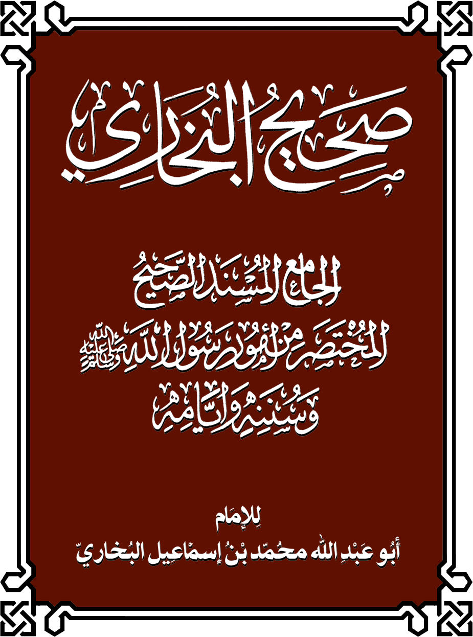 Calligraphy of Saheeh Al-Bukhari's name.